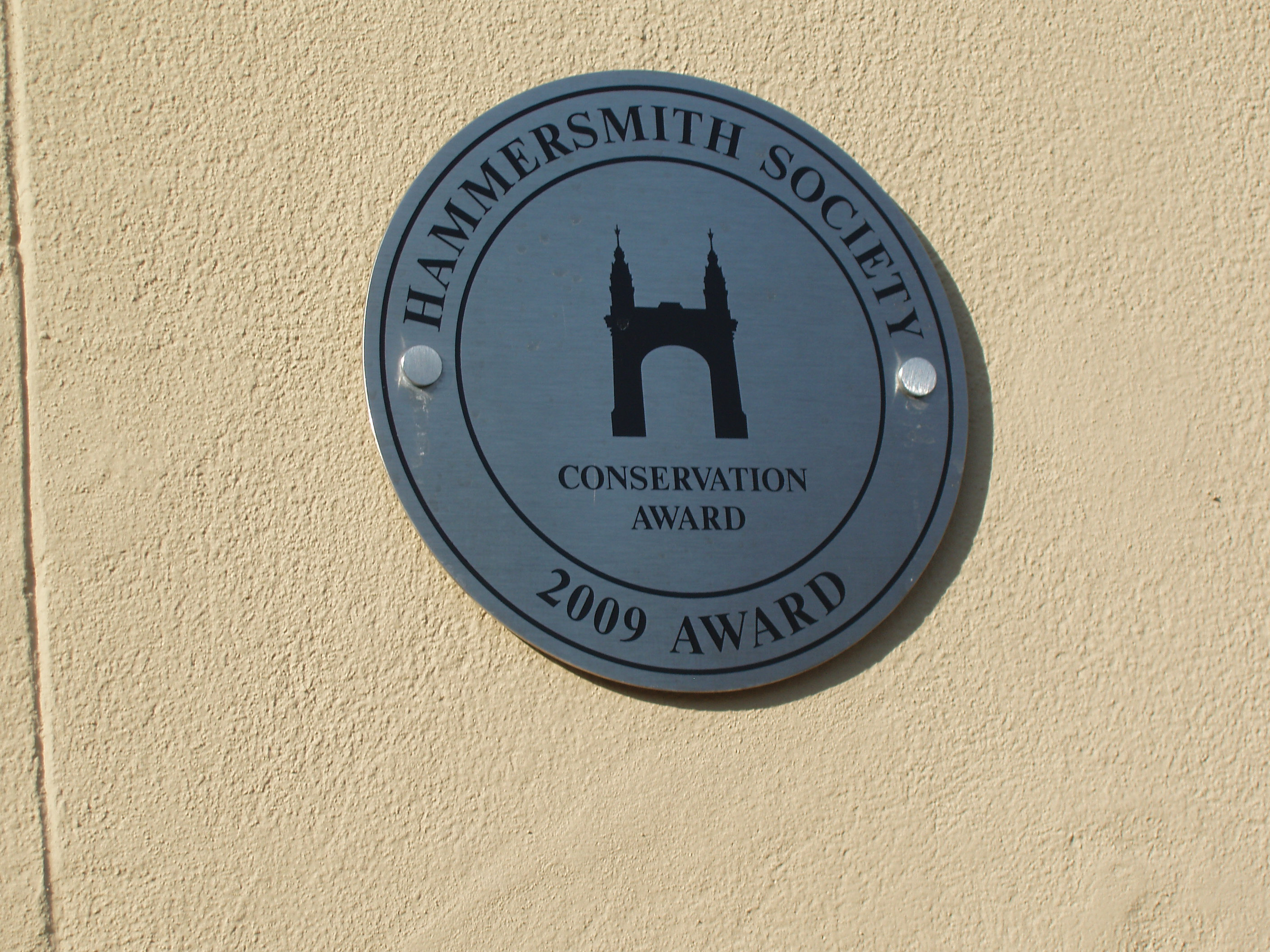 Hammersmith Society conservation award plaque. Awards made annually